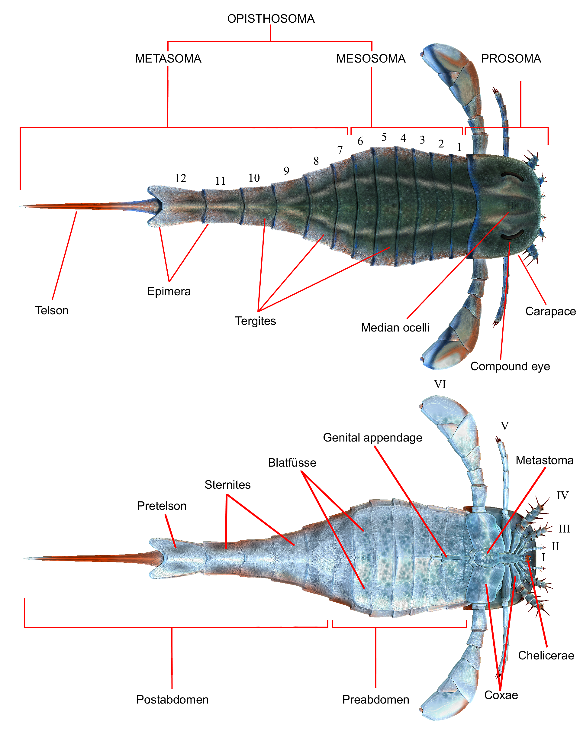 Eurypterus anatomy. If changes are needed, a blank image is also available here: File:Eurypterus dorsal and ventral views (blank).png